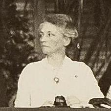 WILPF/2011/18 Anna Kleman - Sweden